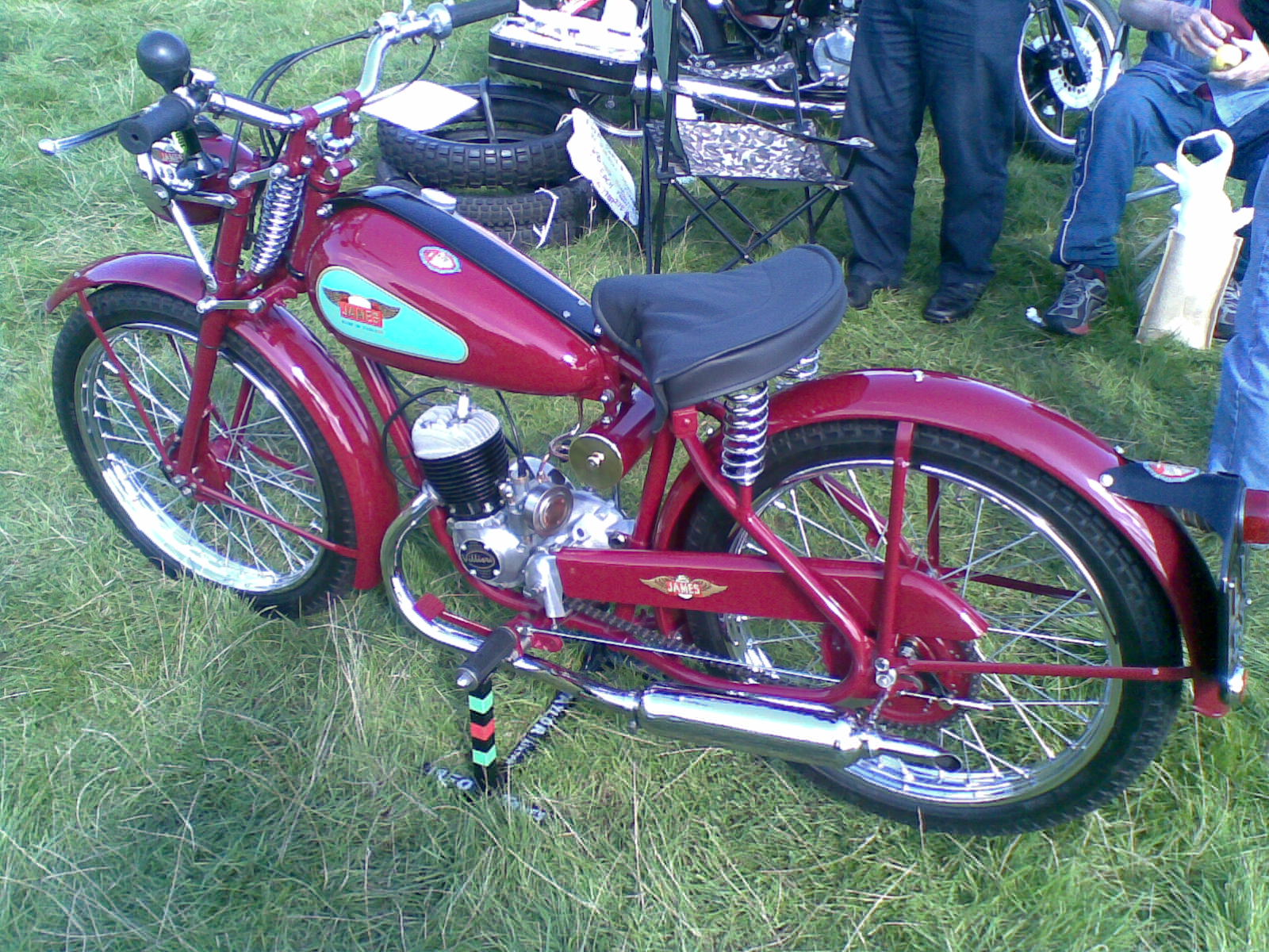 James 50cc Motorcycle at Hoghton Tower